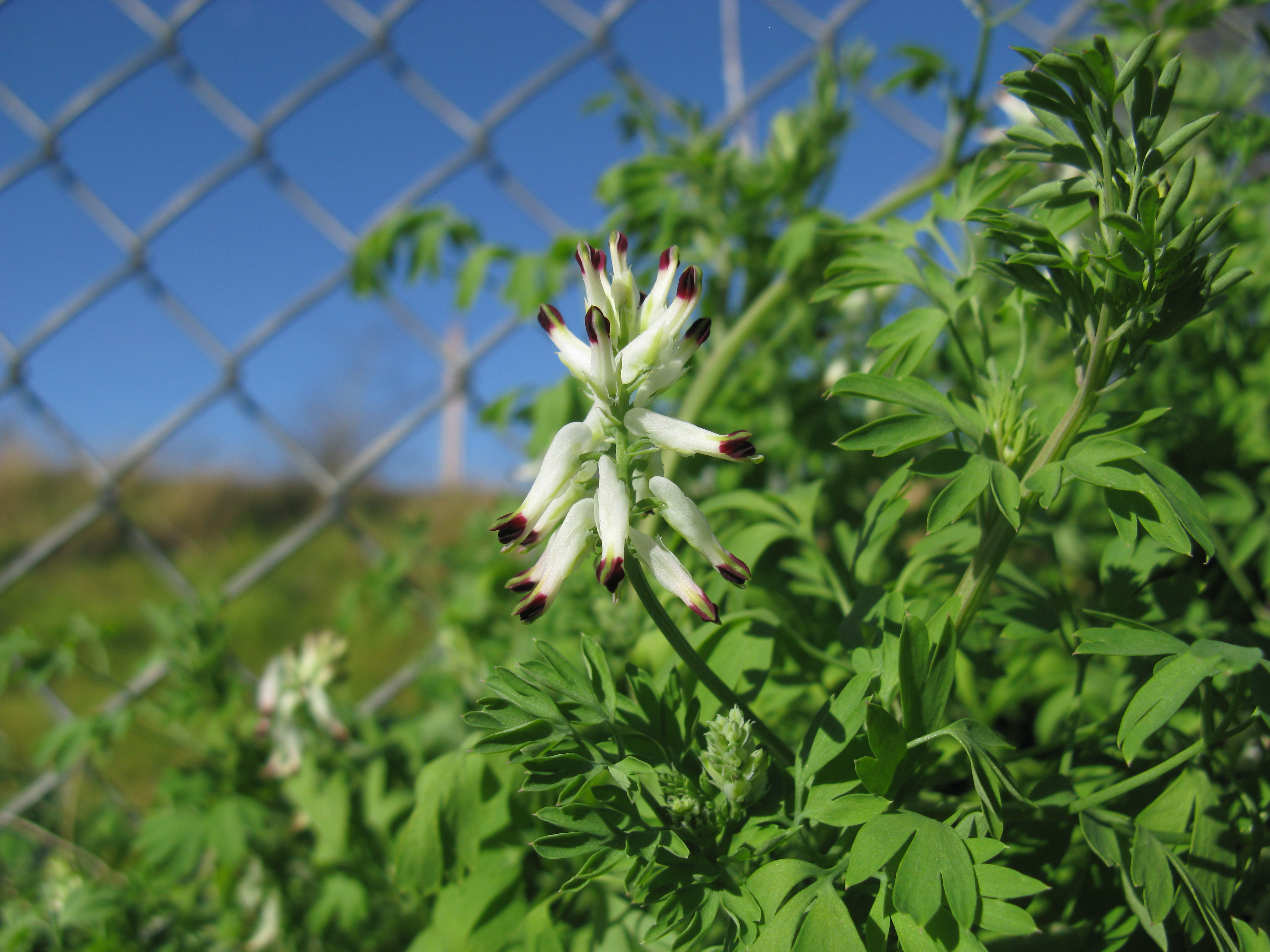 Introduced, cool-season, annual herb. Stems grow to about 1 m long, sometimes climbing. Leaves are variously pinnatisect, segments thin, often 3–5 mm wide, climbing petiolules usually present. Flowerheads are up to 20-flowered and shorter than the peduncle; pedicels are recurved in fruit; bracts are as long as pedicels. Flowers are usually white or cream with purplish tips, gradually turning pink following pollination. Petals are usually 10–14 mm long, much smaller in cleistogamous flowers; upper petals are laterally compressed and the wings do not conceal the keel. Flowering is mostly in spring. A native of northern Africa, western and southern Europe and western Asia, it is a widespread environmental weed. Mainly found in riparian areas, urban bushland, coastal sites, open woodlands, gardens, roadsides, disturbed sites and waste areas. It prefers partially shady and wetter habitats.